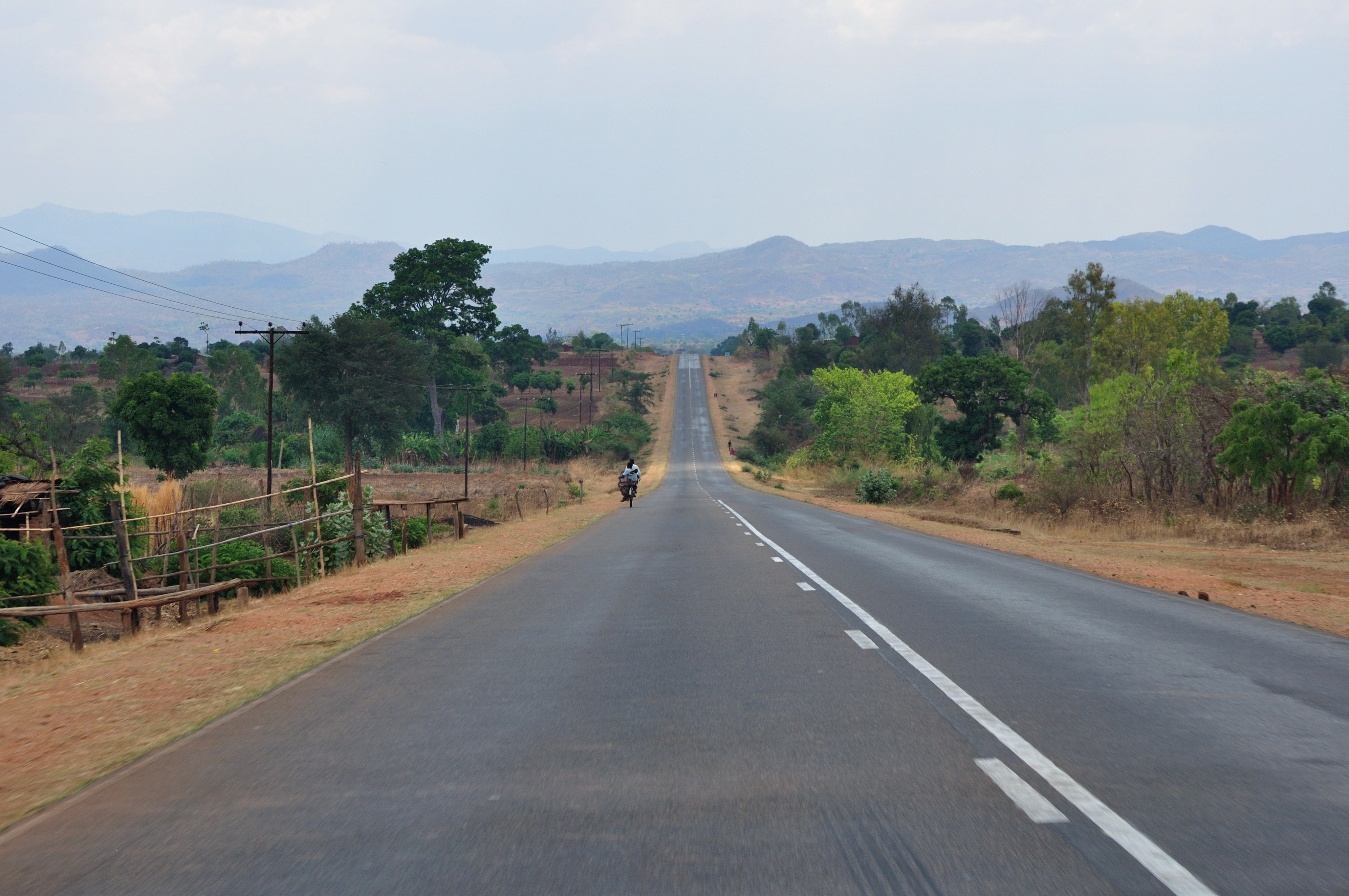 Malawi, road side impressions along the M1 between Blantyre and Lilongwe